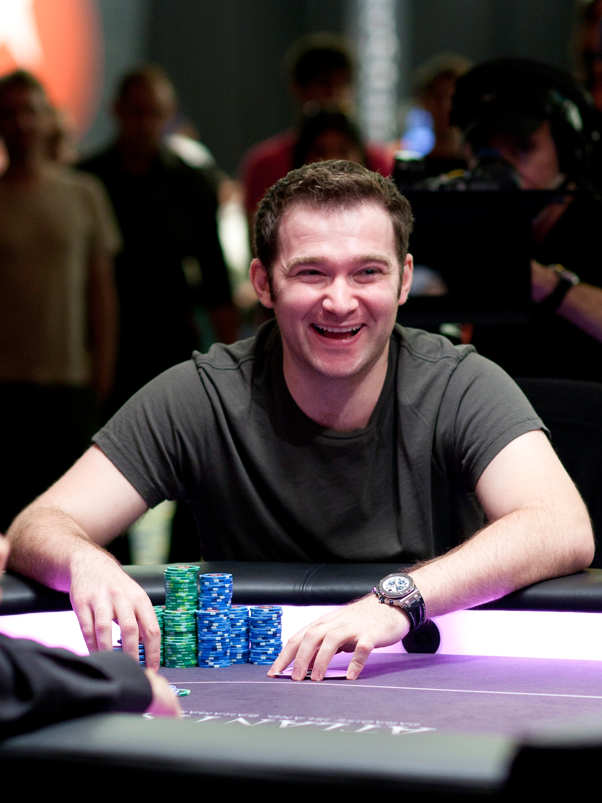 Eugene Katchalov at the PokerStars Caribbean Adventure 2011 Super High Roller Event, which he won.